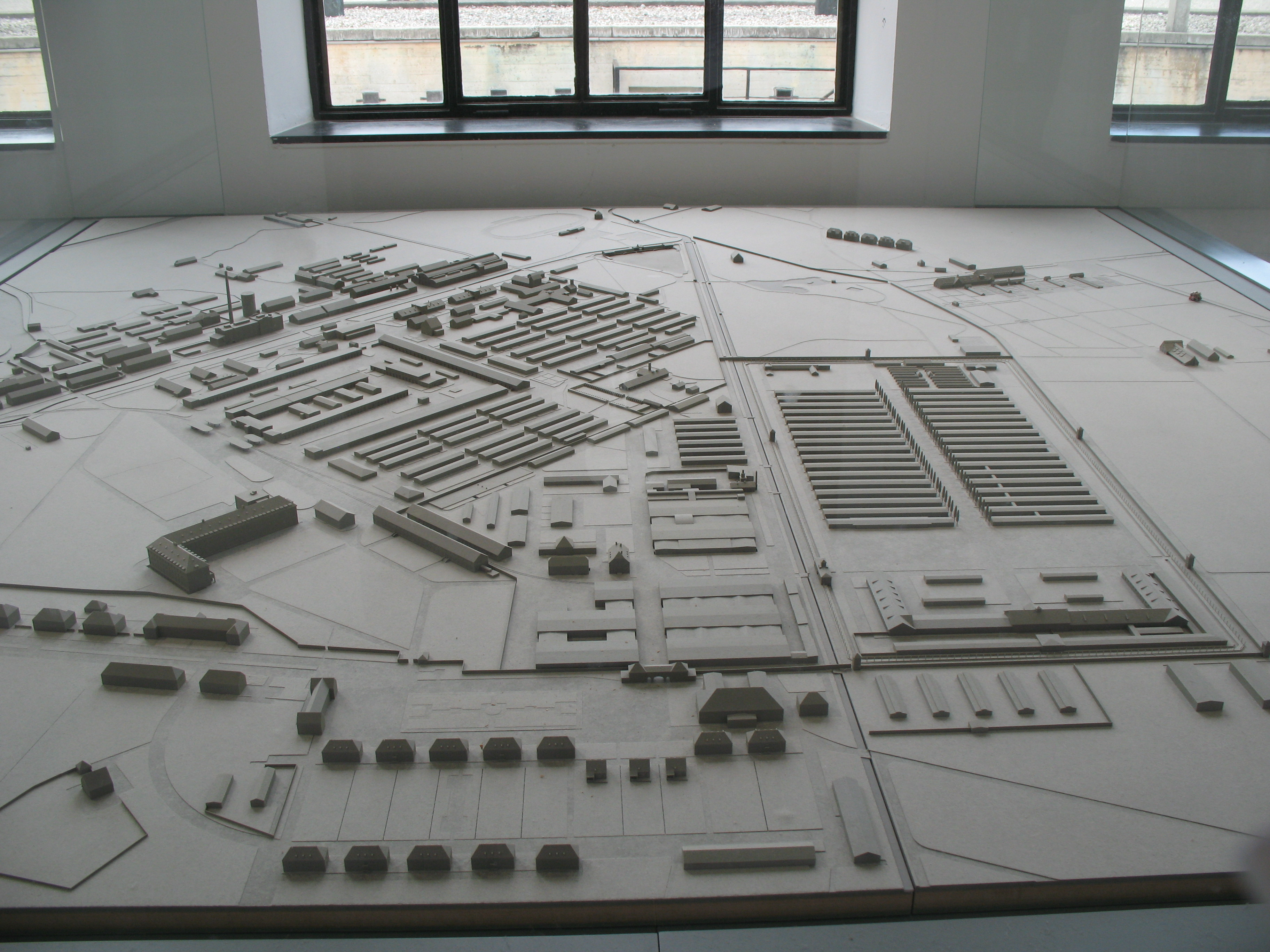 Dachau Concentration CampDachau, Germany - Google Maps - Google Earth